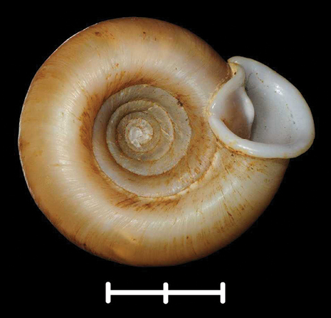 Photo of an umbilical view of a shell of Halongella schlumbergeri (Morlet, 1886), MNHN 24582 (syntype of Helix (Plectopylis) schlumbergeri). Scale bar is 10 mm.